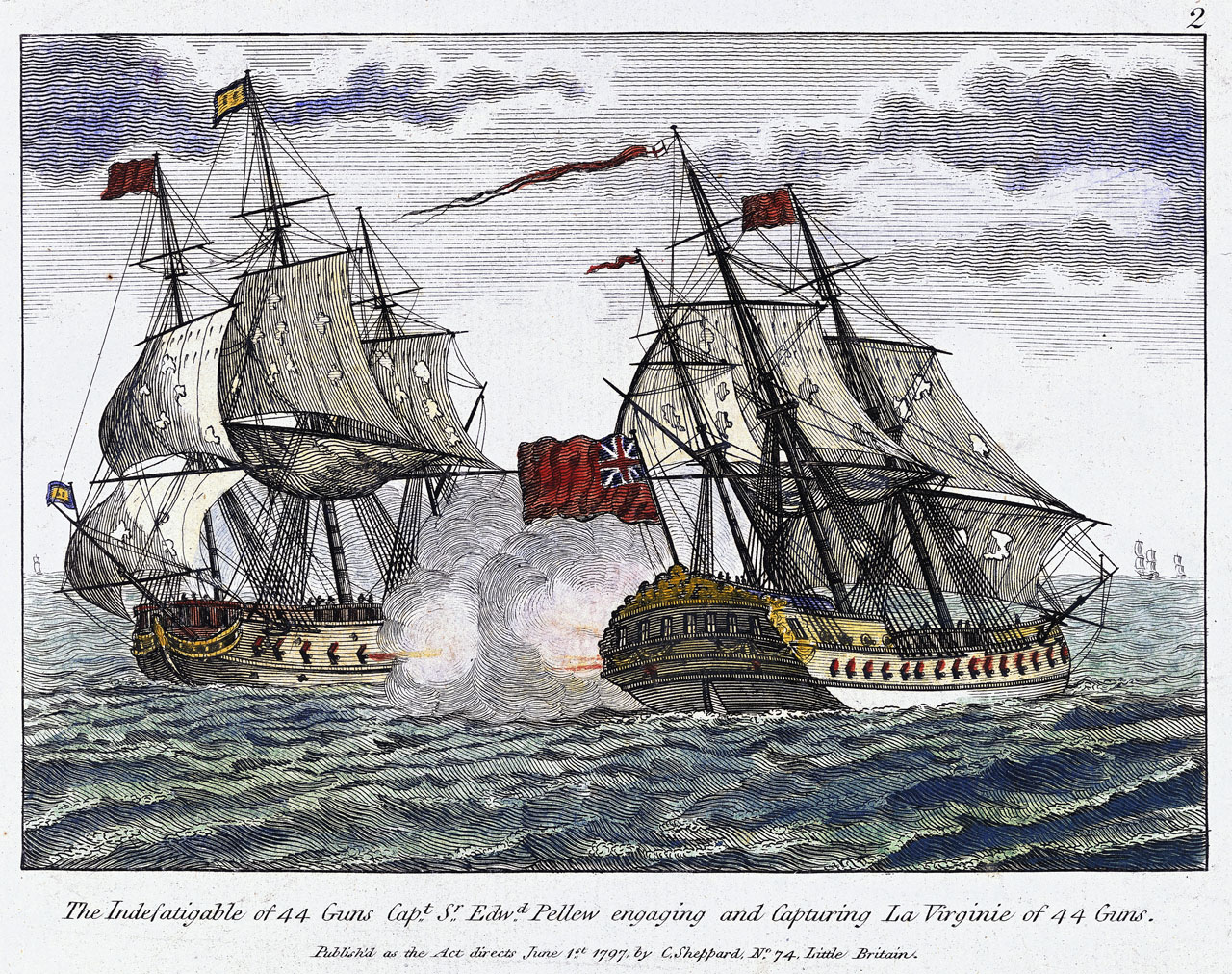 The Indefatigable of 44 Guns Capt. Sr Edward Pellew engaging and capturing La Virginie of 44 Guns.